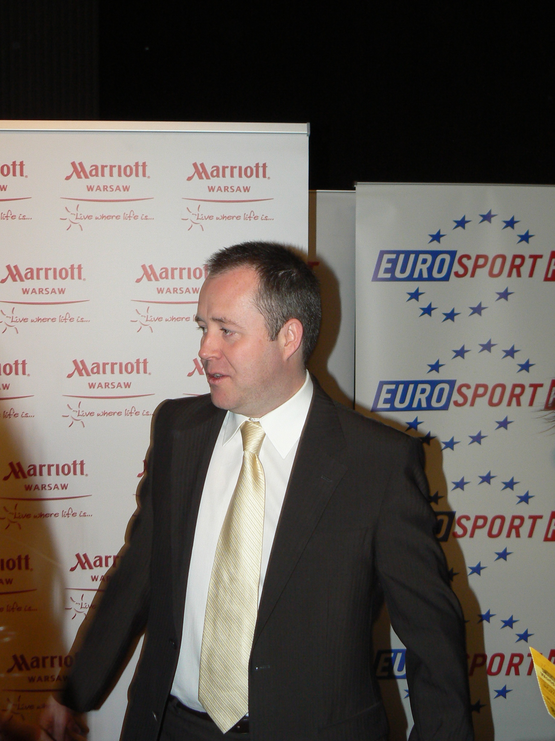 John Higgins in the midtime of World Series of Snooker 2008 Warsaw quarterfinals